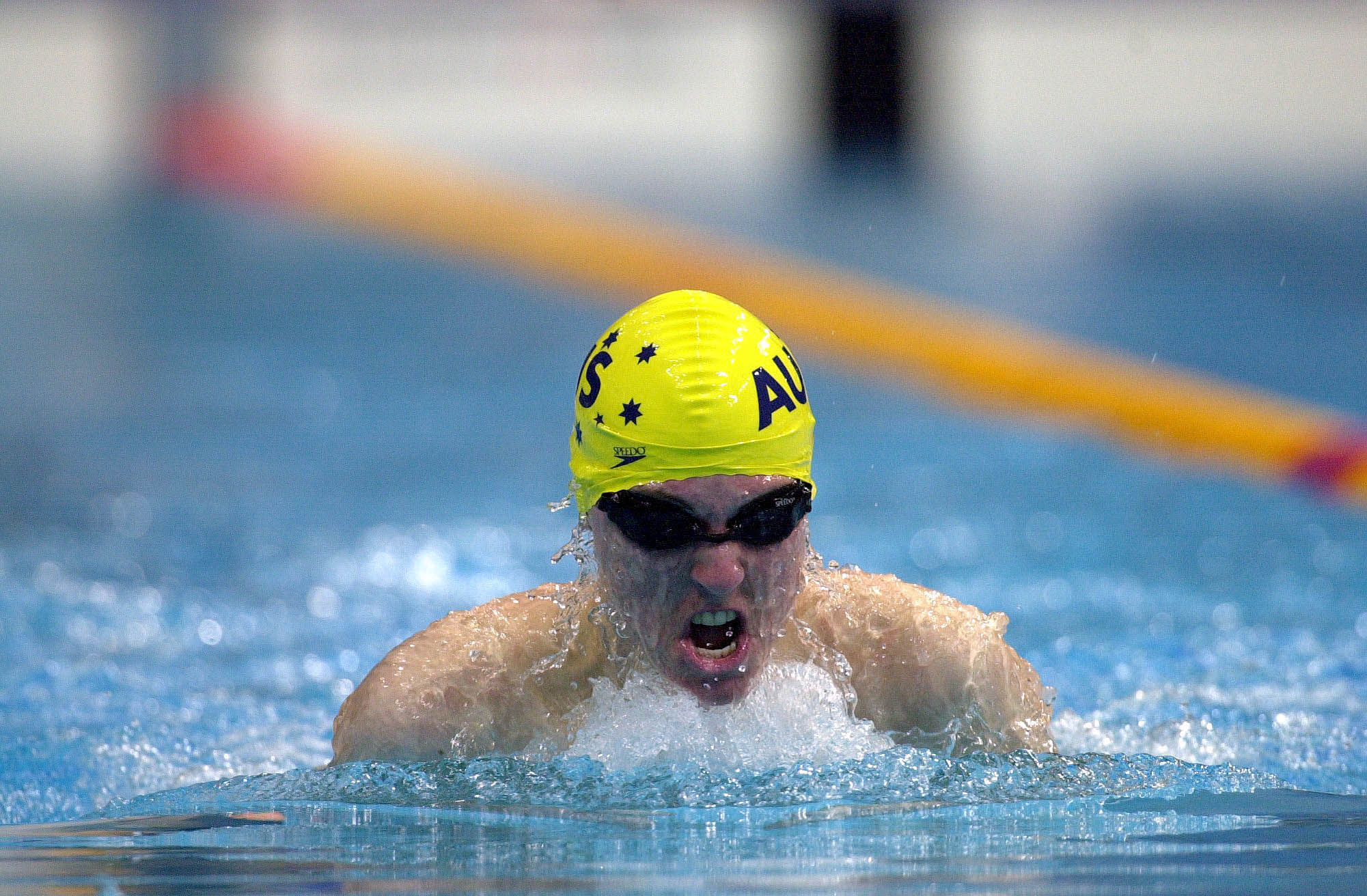 Action shot of Australian swimmer Patrick Donachie on Day 02 of the 2000 Sydney Paralympic Games